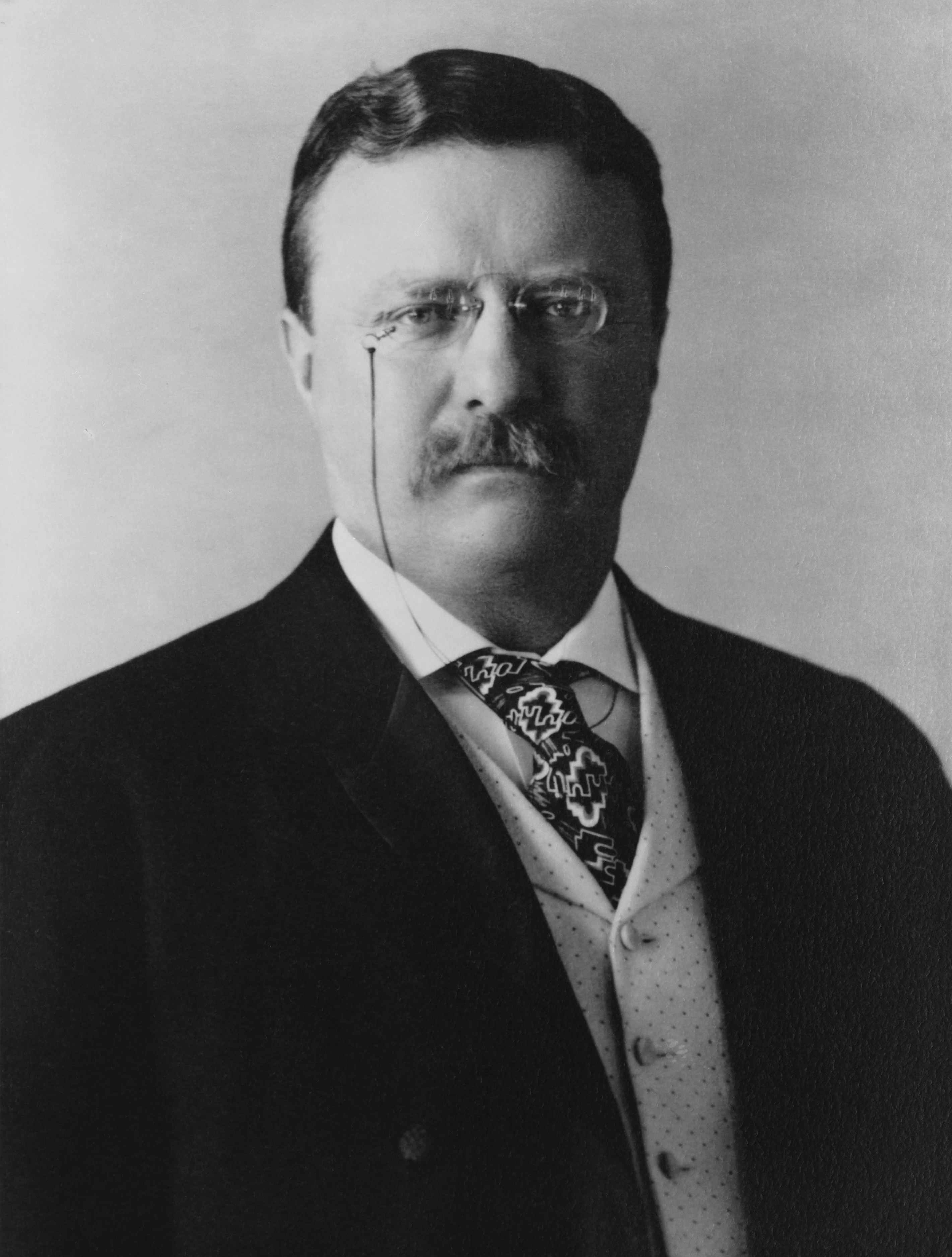 President of the United States Theodore Roosevelt, head-and-shoulders portrait, facing front.